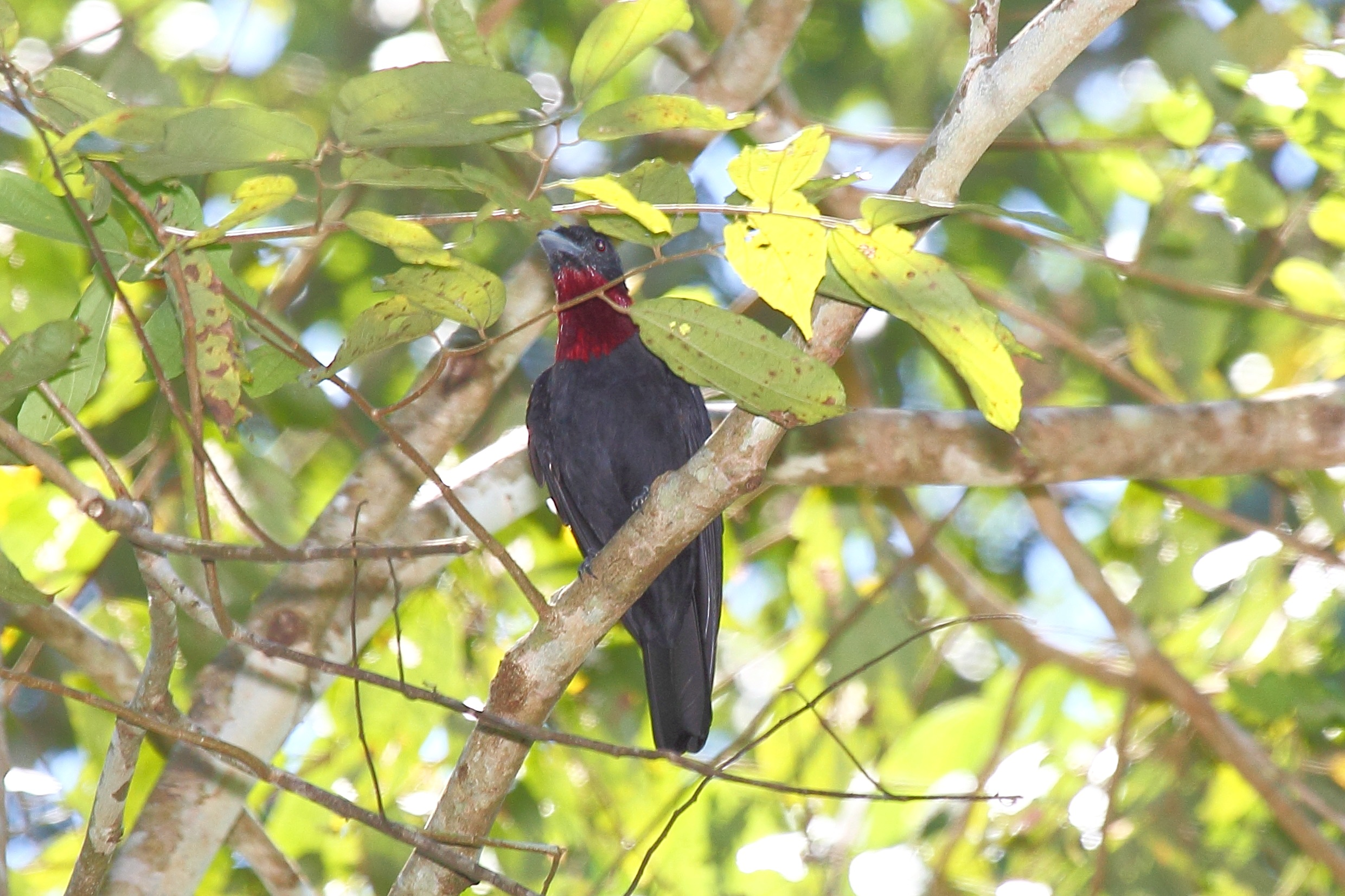 Purple-throated Fruitcrow Querula purpurata, Costa Rica